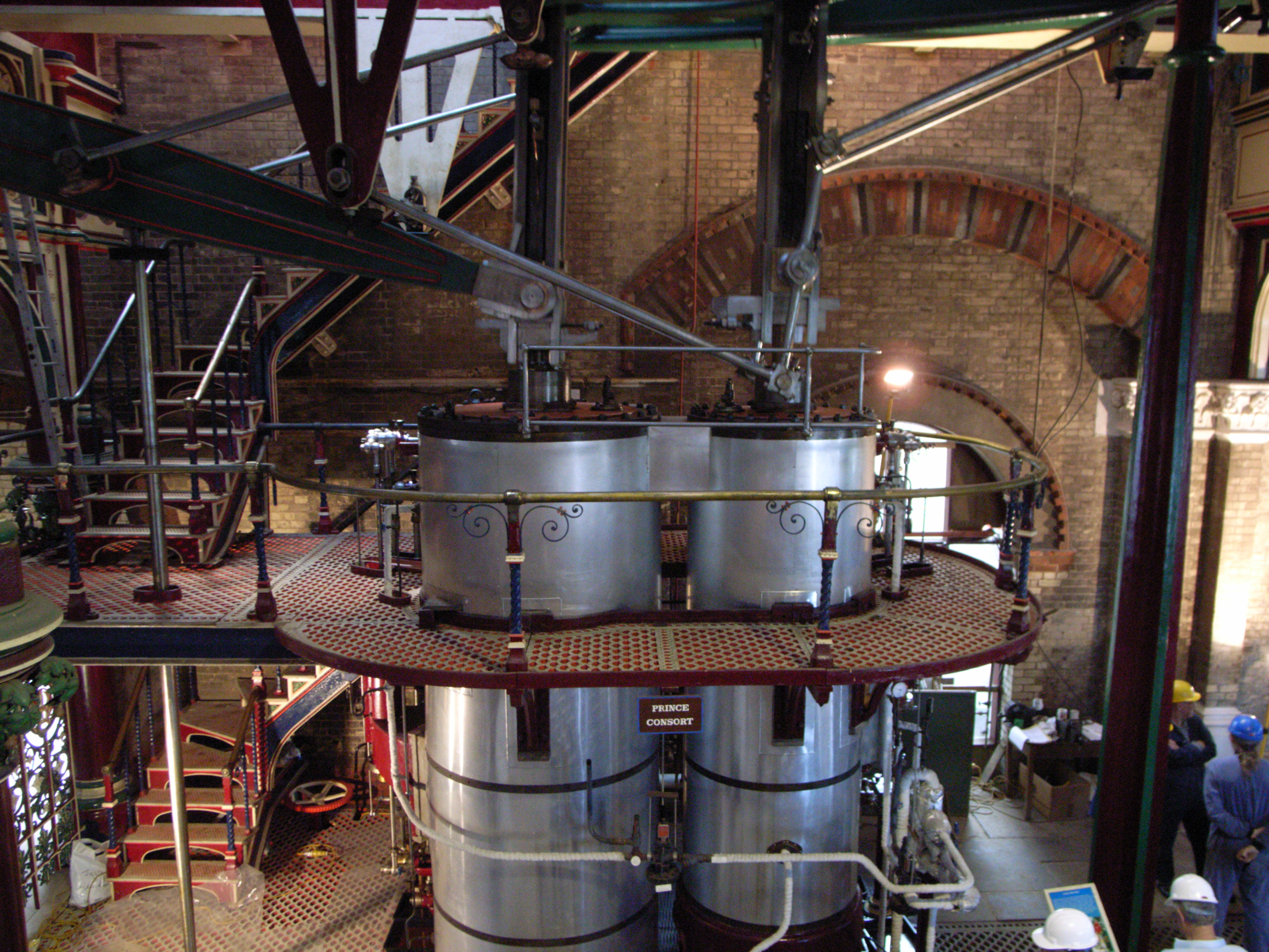 The Prince Consort (one of the 4 steam engines), Crossness Pumping Station (opened 1865), architect Charles H. Driver